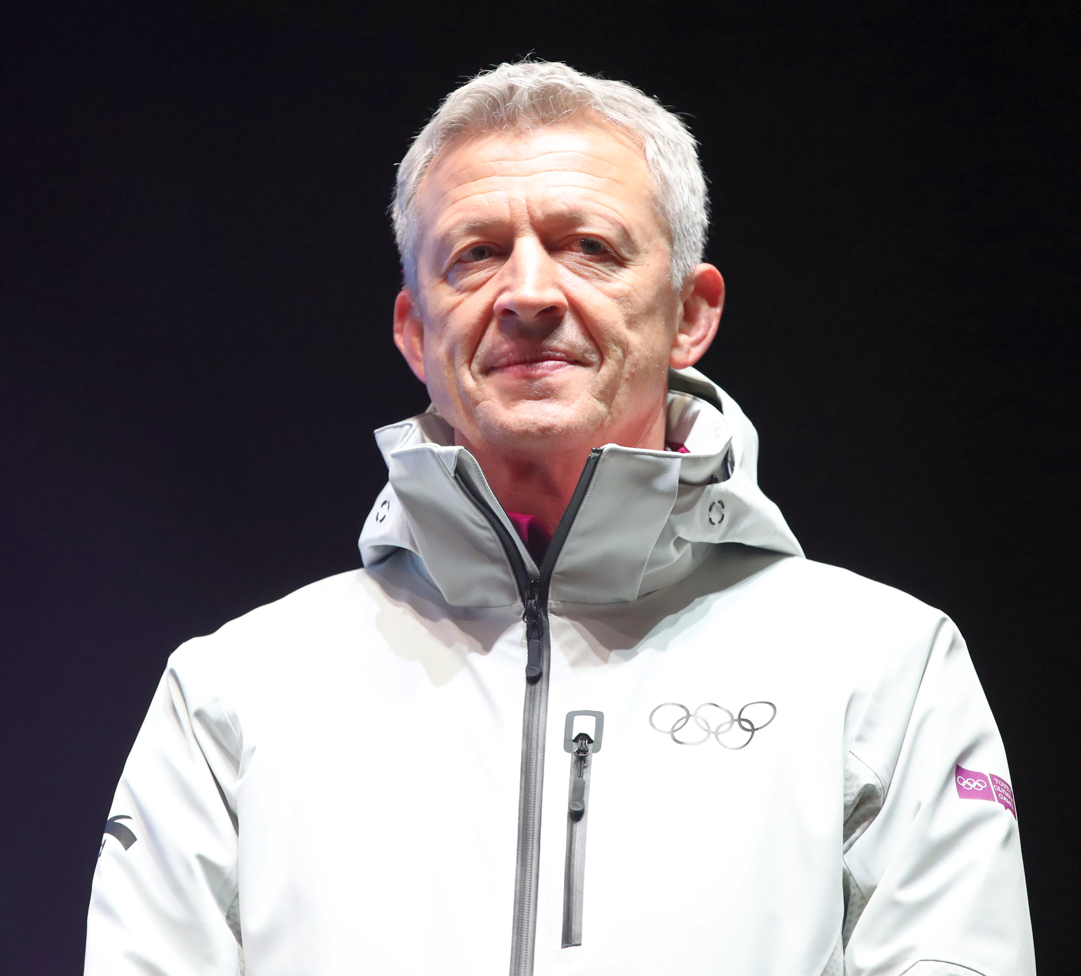 Medal Ceremony Day 3, 2020 Winter Youth Olympics in Lausanne